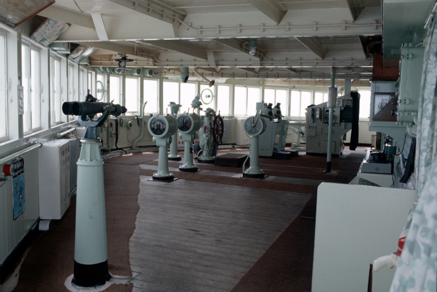 The Japanese National Railways train ferry between Aomori and Hakodate MS SORACHI MARU 1 wheel house